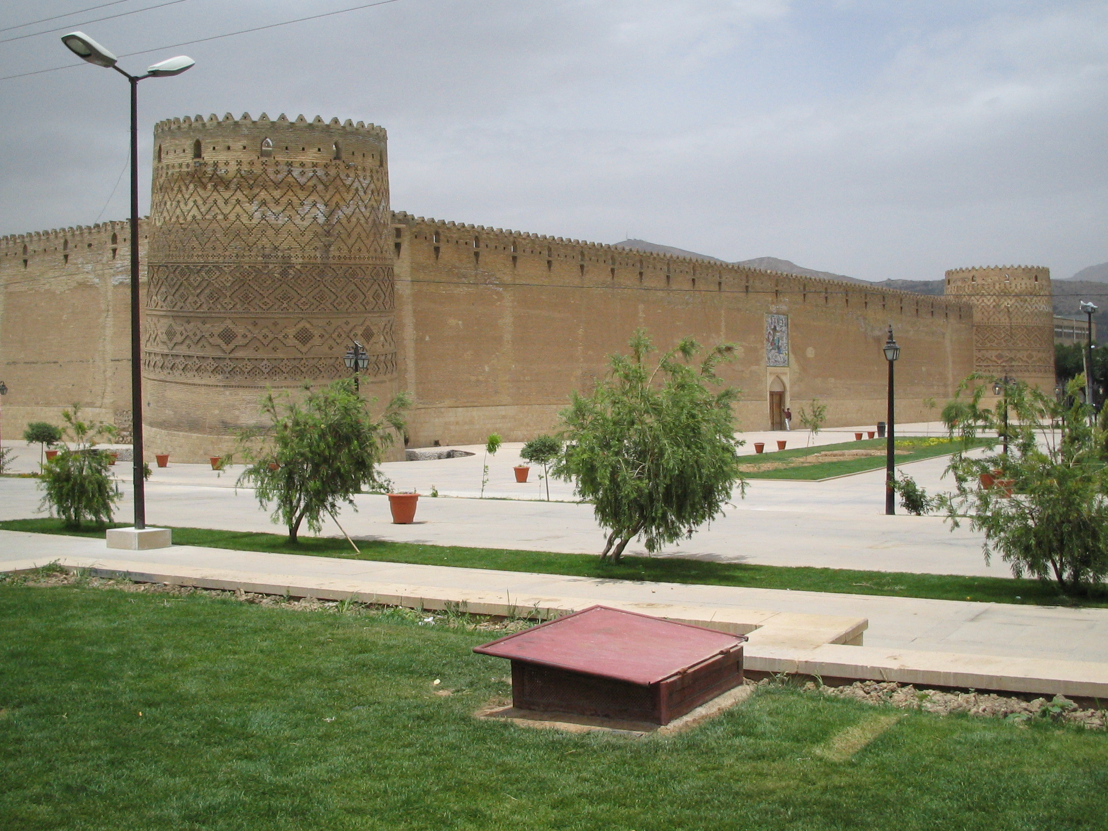 Arg e Karim Khan (Citadel) in central Shiraz, Fars province, Iran.